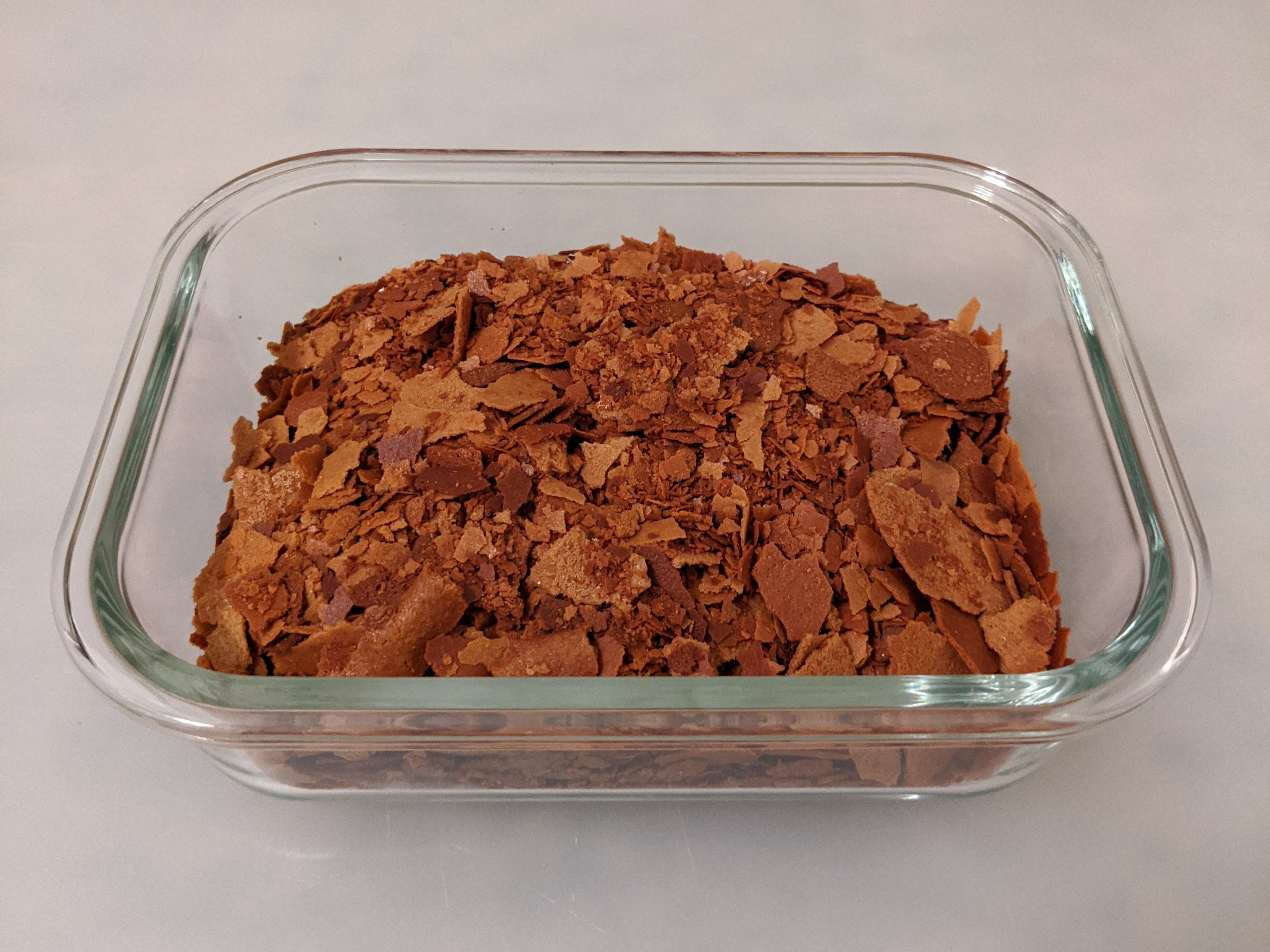 Rectangular glass container containing homemade feuilletine